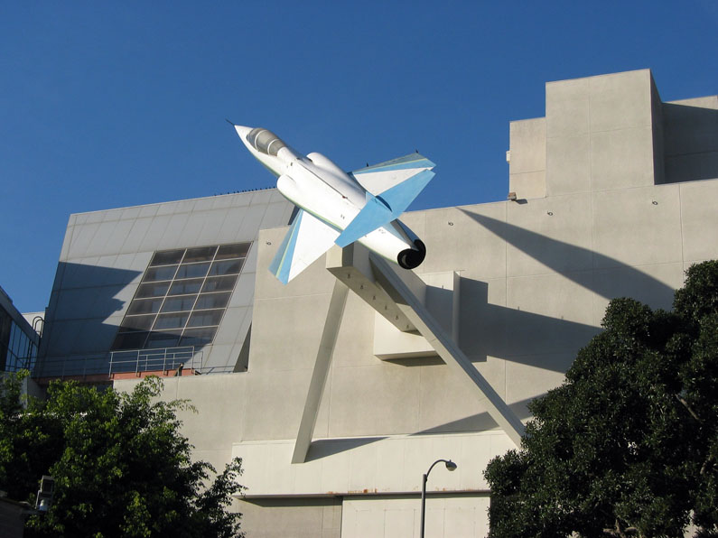 Description:The California Science Center — with Lockheed F-104 Starfighter. Building by Frank Gehry (1980s), in Exposition Park, Los Angeles. Source: Photograph on 15.11.2005 Photographer: Pelladon Copyright: Copyright © 2005 Richard H. Kim